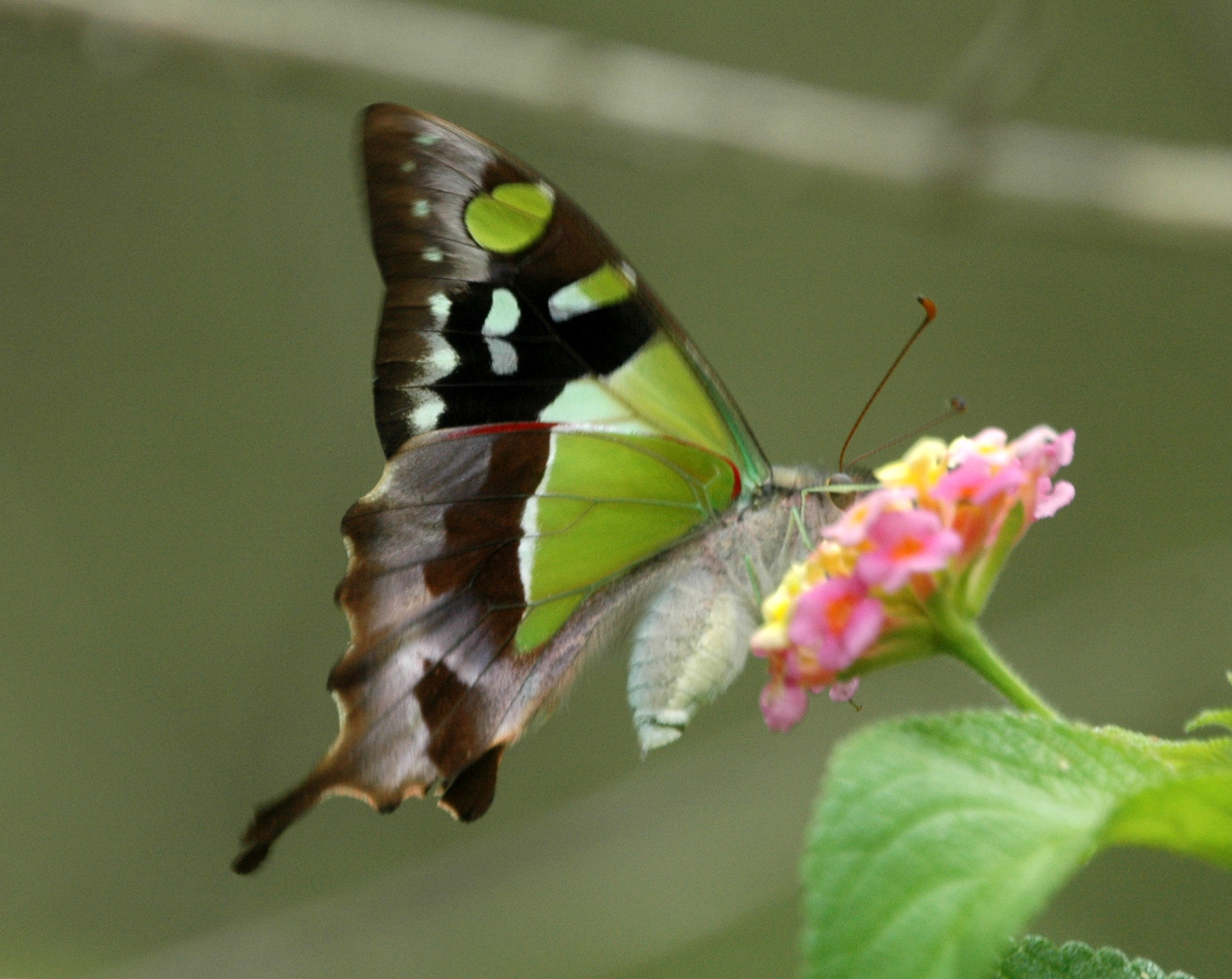 Macleay's Swallowtail (Graphium macleayanus) Lamington NP, SE Queensland, Australia